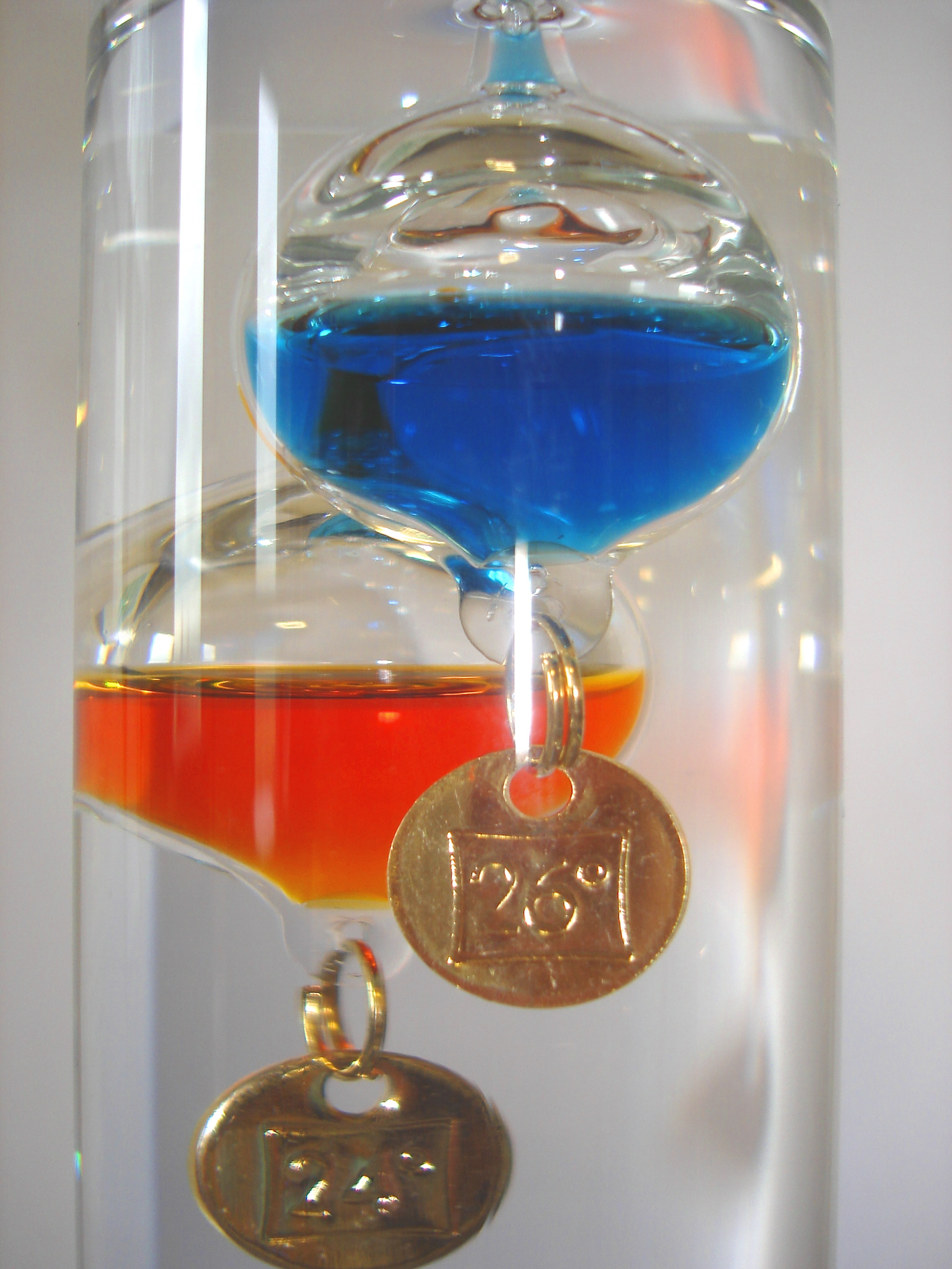 Galileo Thermometer detail.